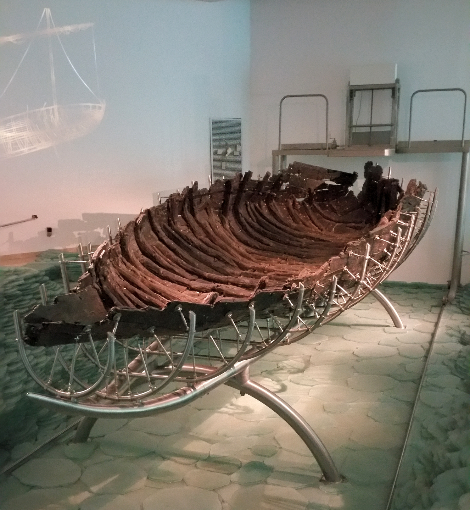 Located on the grounds of Kibbutz Ginnosar on the Sea of Galilee, the museum is named after Yigal Alon (1918-1980), member of Kibbutz Ginnosar, military and political leader, and believer in coexistence and peace. The museum hosts changing exhibits of art by Jews and Arabs. Its permanent exhibits showcase the history of the Galilee from ancient times to the present, the history of the pre-state force, the Palmach, and Alon’s own story, and the famous 2,000 year-old Galilee Boat.